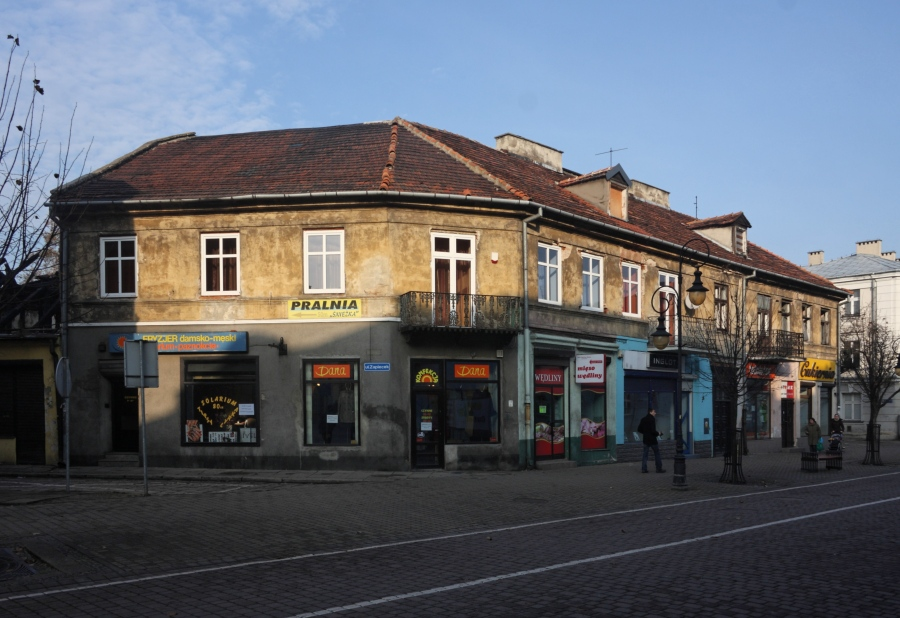 Włocławek, house at 3 Maja Str. no 24 from 3rd quarter of 19th century.